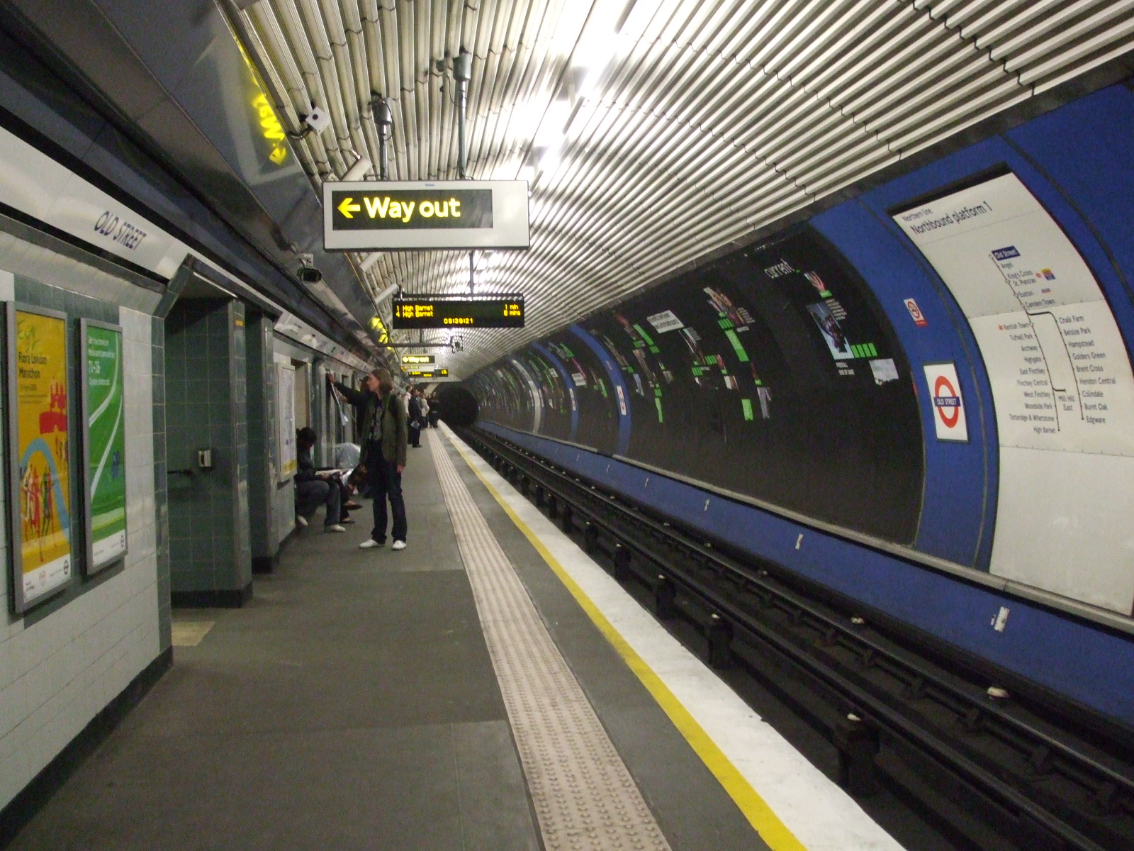 Old Street station Northern line northbound platform looking south